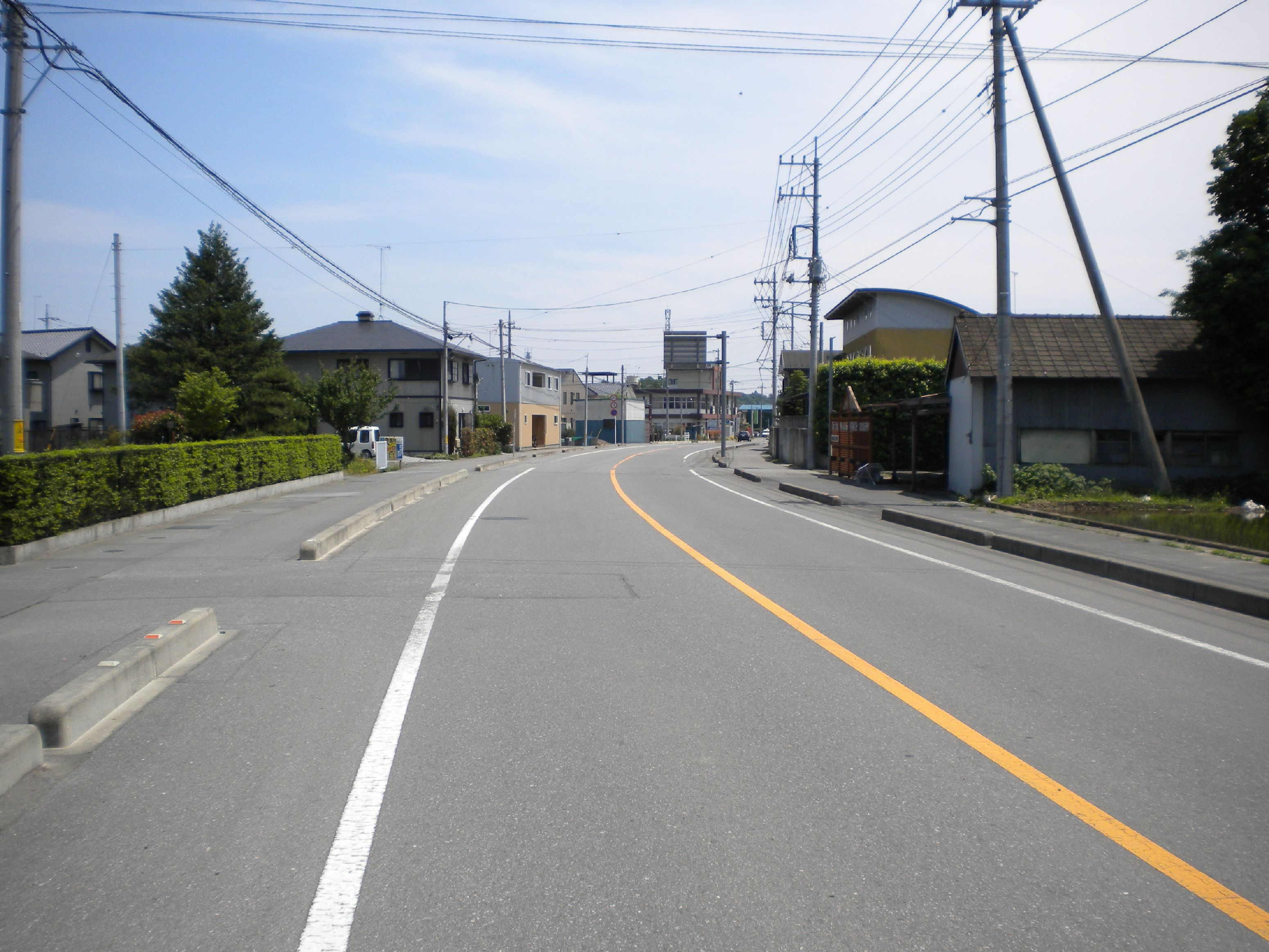 The Tochigi Prefectural Road Route 164 in Tamadamachi, Kanuma City